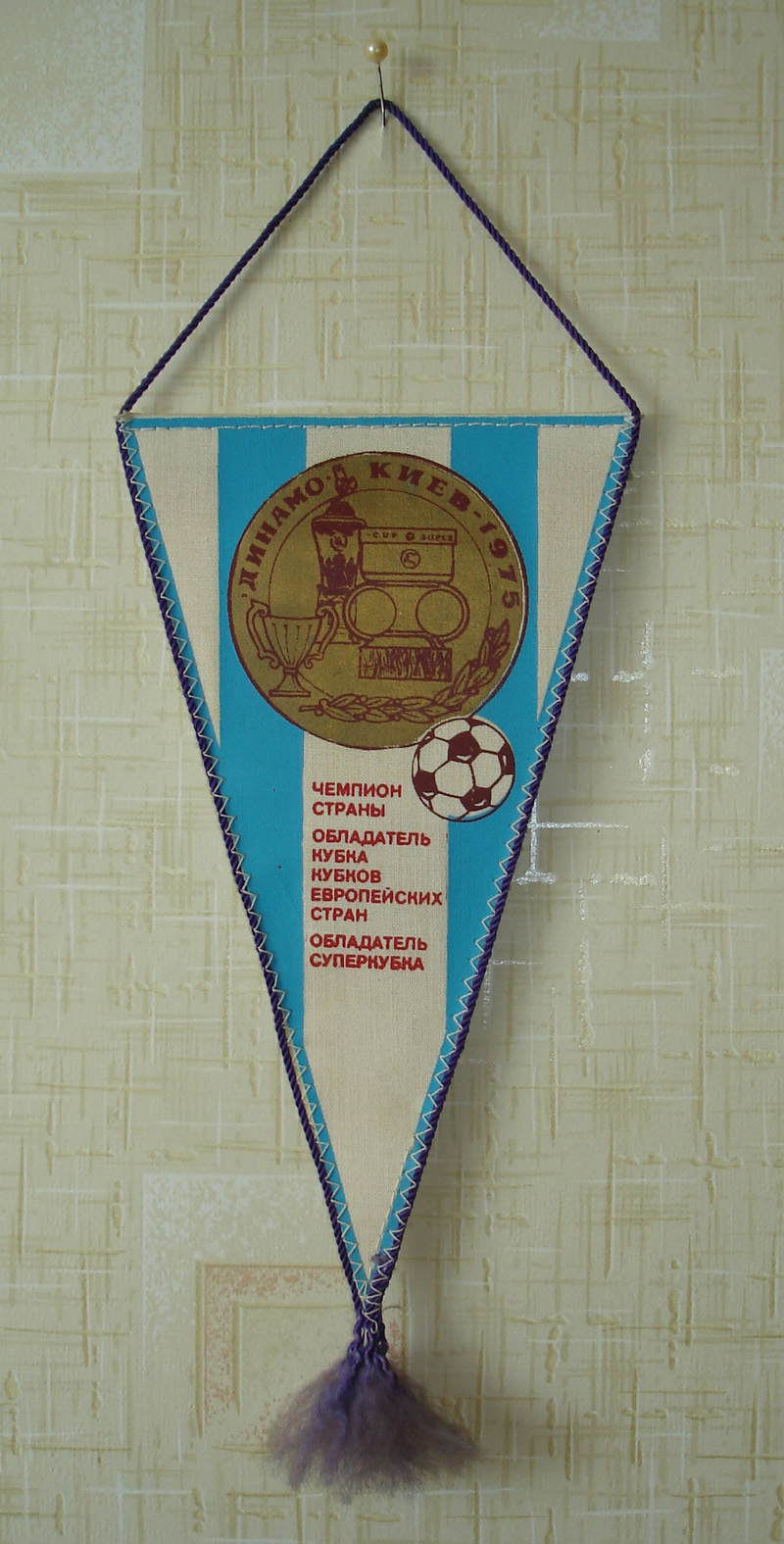 Sporting pennant of FC Dynamo Kyiv